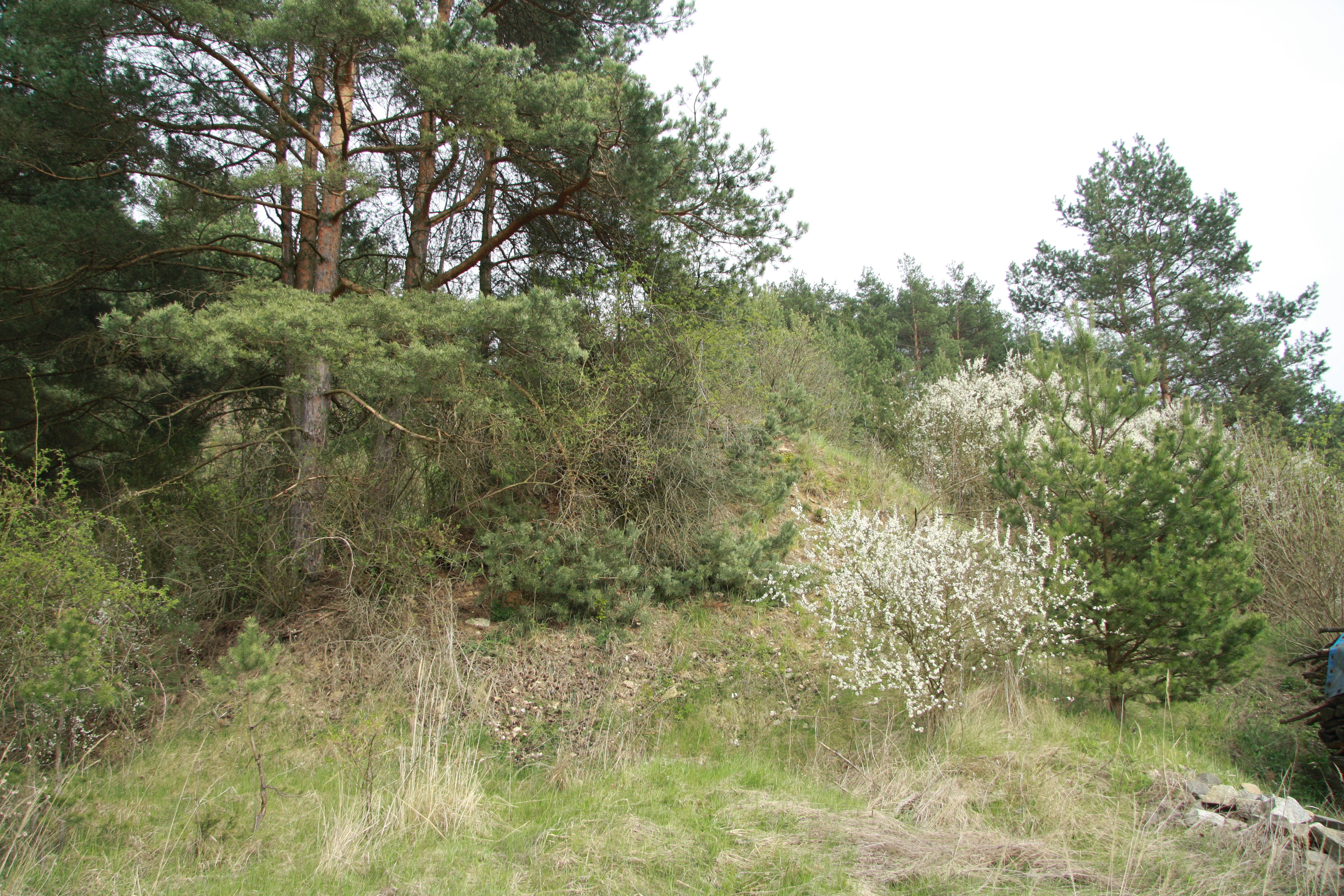 Overview of slope of Na skaličce near Číchov, Třebíč District.